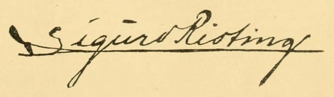 The signature of Sigurd Risting from his book Av Hvalfangstens Historie 1922